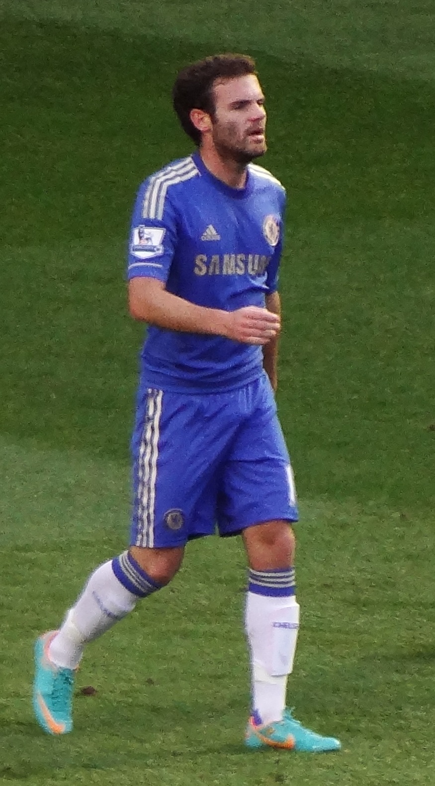 Mata Winning start for Juan Mata at Manchester United